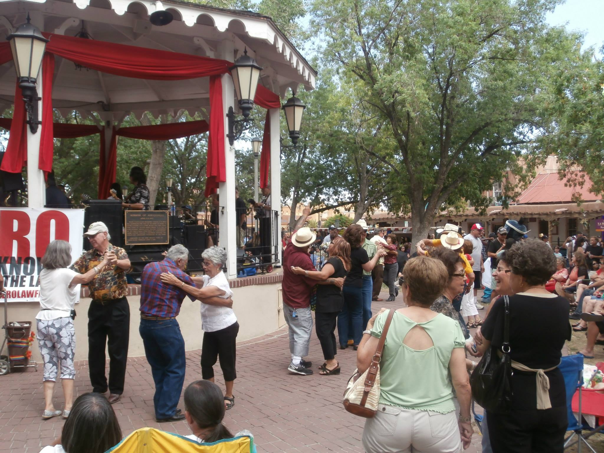 People dancing to Al Hurricane and Al Hurricane, Jr. performing at the San Felipe De Neri fiestas at Old Town Plaza in Albuquerque, New Mexico.